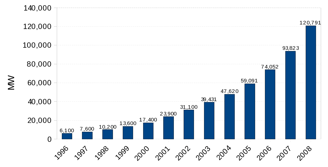 This is a graph of world installed wind power capacity for 1997 through 2008. Data source: Global Wind Energy Council